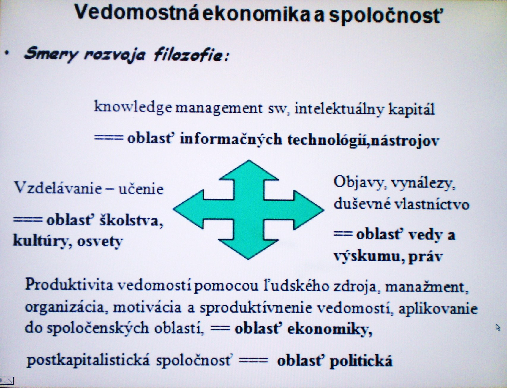 Draft: The Knowledge Society_philosophy and evolution in Slovak Language